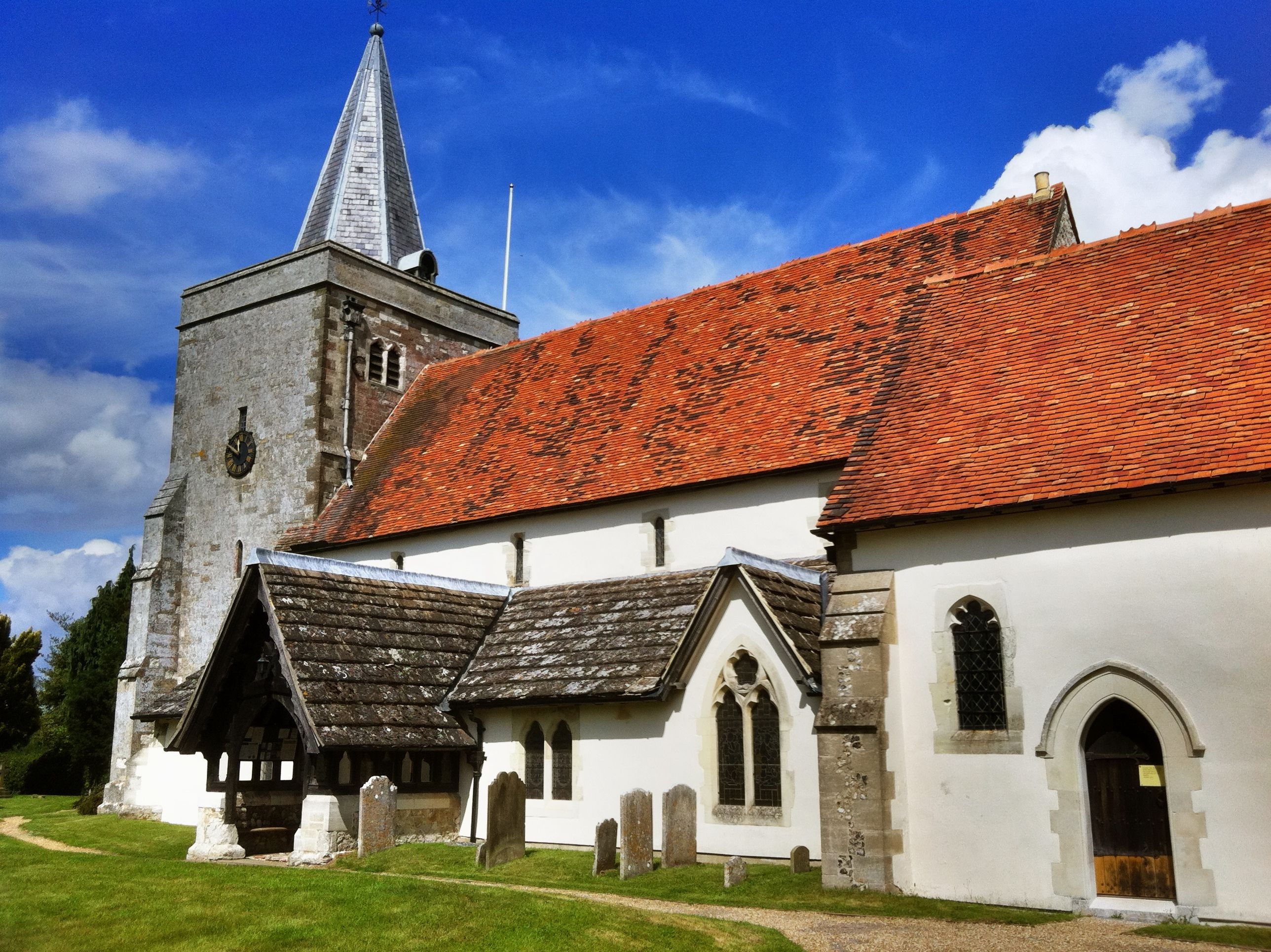 Holy Cross parish church, Binsted, Hampshire, seen from the southeast